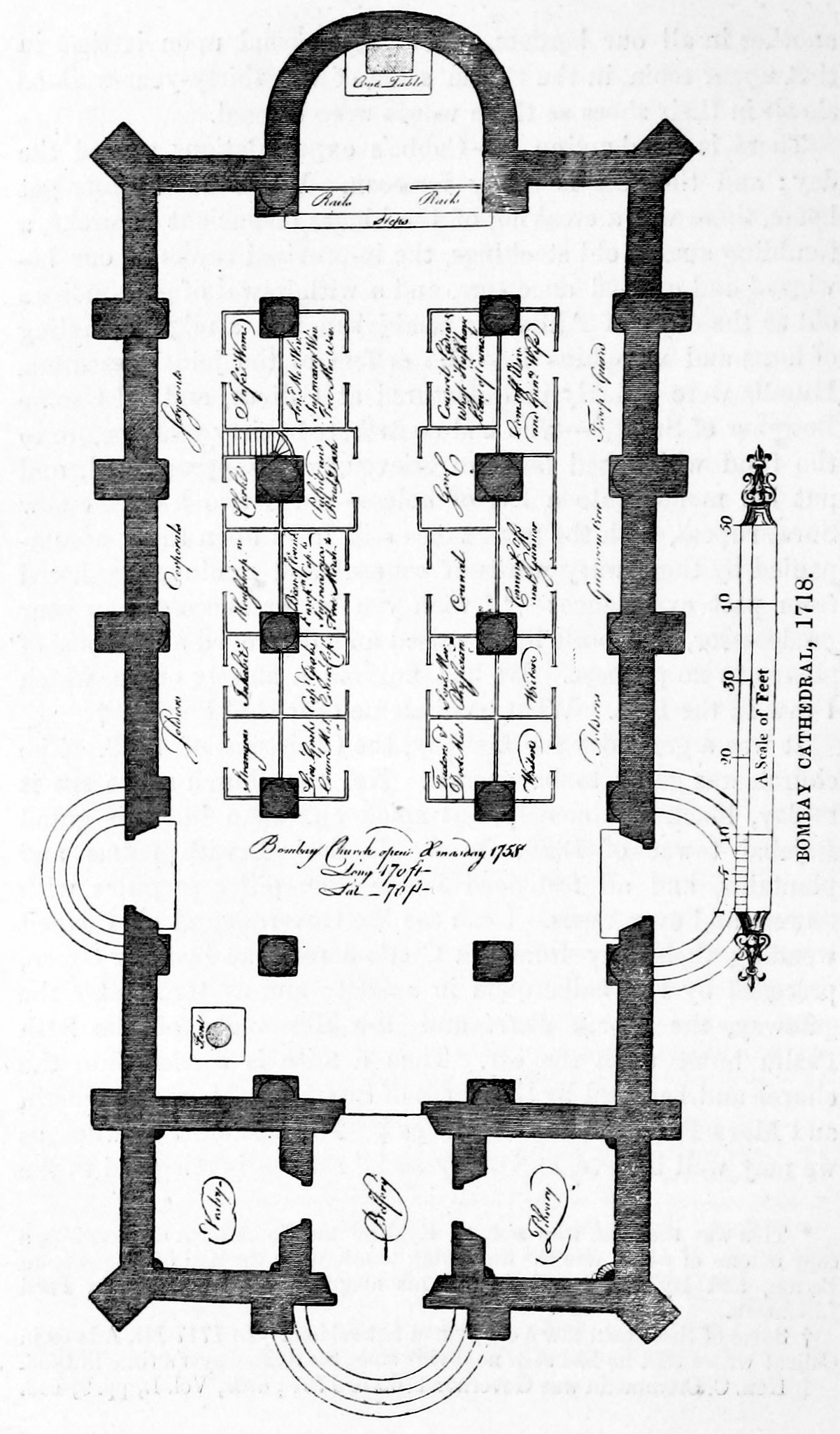 Image taken from: Title: "Bombay and Western India. A series of stray papers" Author: DOUGLAS, James - of Bombay Shelfmark: "British Library HMNTS 010056.h.10.", "British Library OC ORW.1986.a.2990" Volume: 02 Page: 284 Place of Publishing: London Date of Publishing: 1893 Publisher: Sampson Low & Co. Issuance: monographic Identifier: 000973604 Note: The colours, contrast and appearance of these illustrations are unlikely to be true to life. They are derived from scanned images that have been enhanced for machine interpretation and have been altered from their originals. If you wish to purchase a high quality copy of the page that this image is drawn from, please order it here. Please note that you will need to enter details from the above list - such as the shelfmark, the page, the book's volume and so on - when filling out your order. Explore: Find this item in the British Library catalogue, 'Explore'. Open the page in the British Library's itemViewer (page: 284) Download the PDF for this book Click here to see all the illustrations in this book and click here to browse other illustrations published in books in the same year. Please click on the tags shown on the right-hand side for other ways to browse the illustrations.